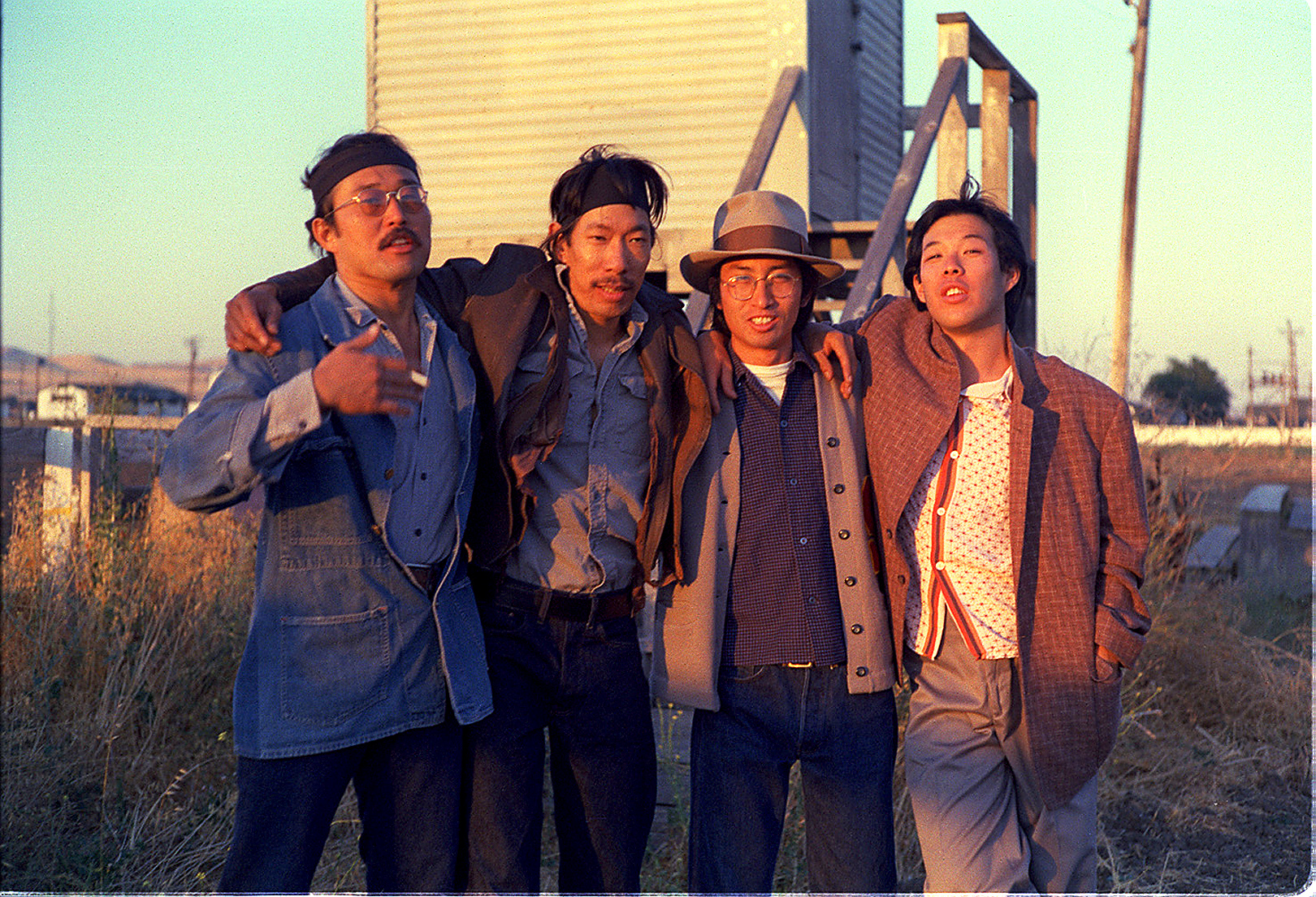 Poet Lawson Inada with American playwright Frank Chin, novelist Shawn Wong and actor Michael Paul Chan relaxing on location in John Korty's 1976 film, "Farewell to Manzanar." photo by Nancy Wong